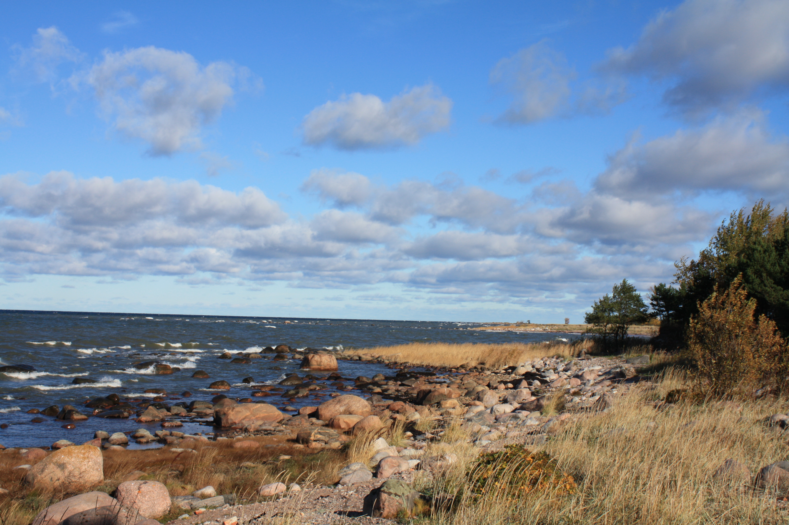 Seaside in Pärispea